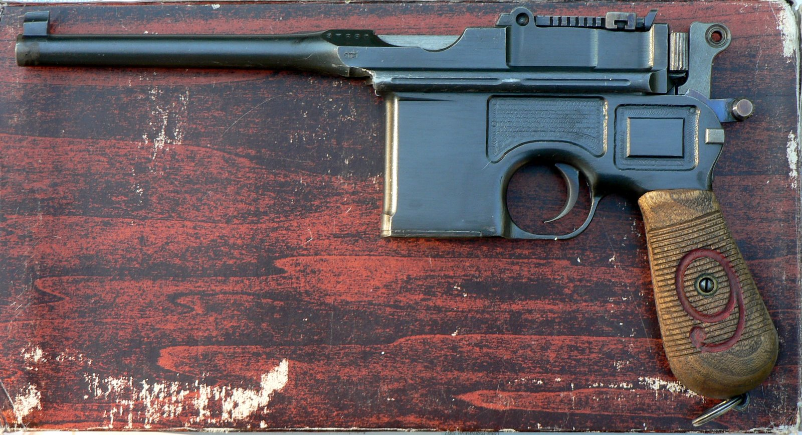 Mauser C96 M1916 "Red 9"